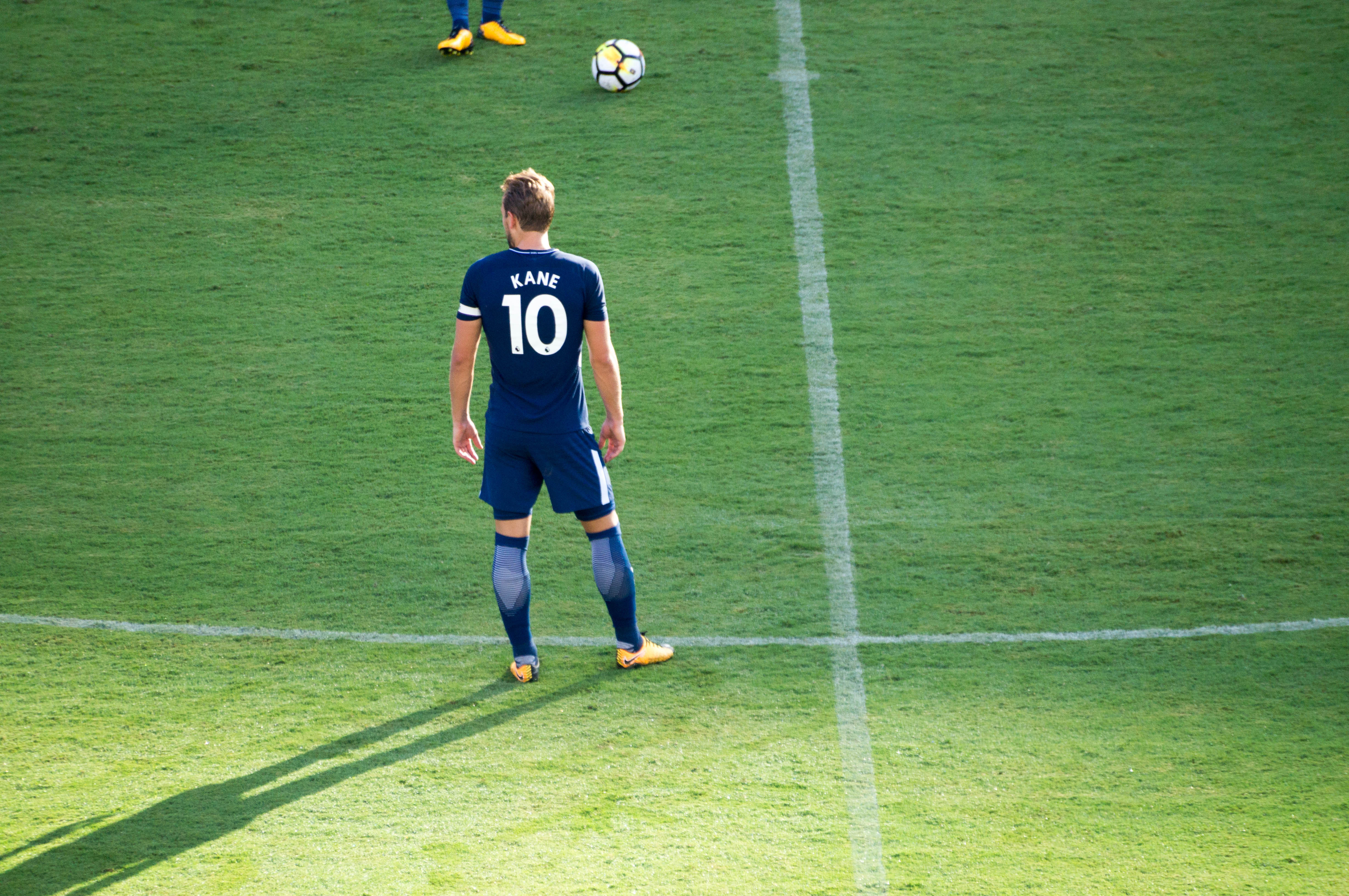 Manchester City vs Tottenham Hotspur at Nissan Stadium in Nashville, TN